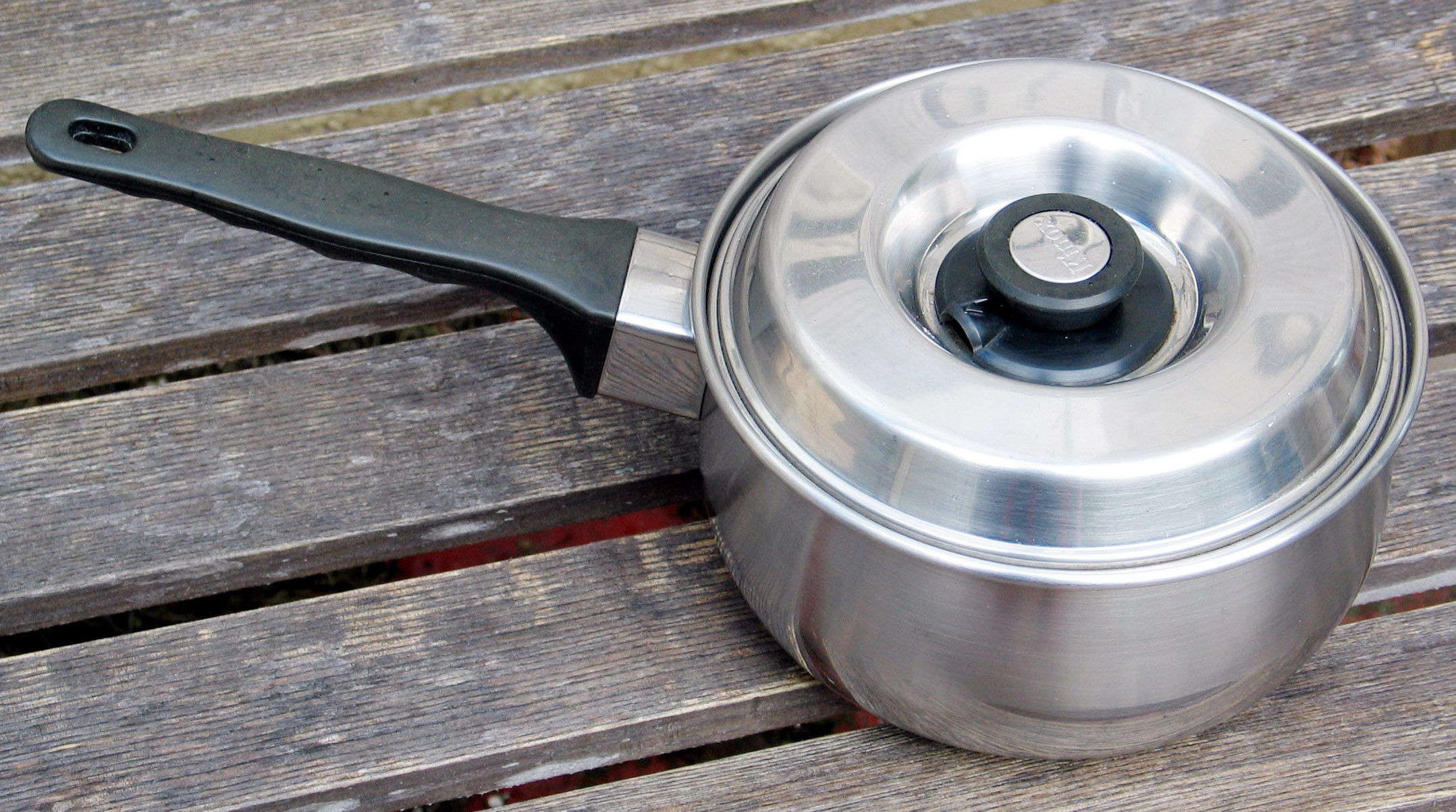 This is a Kinox saucepan.